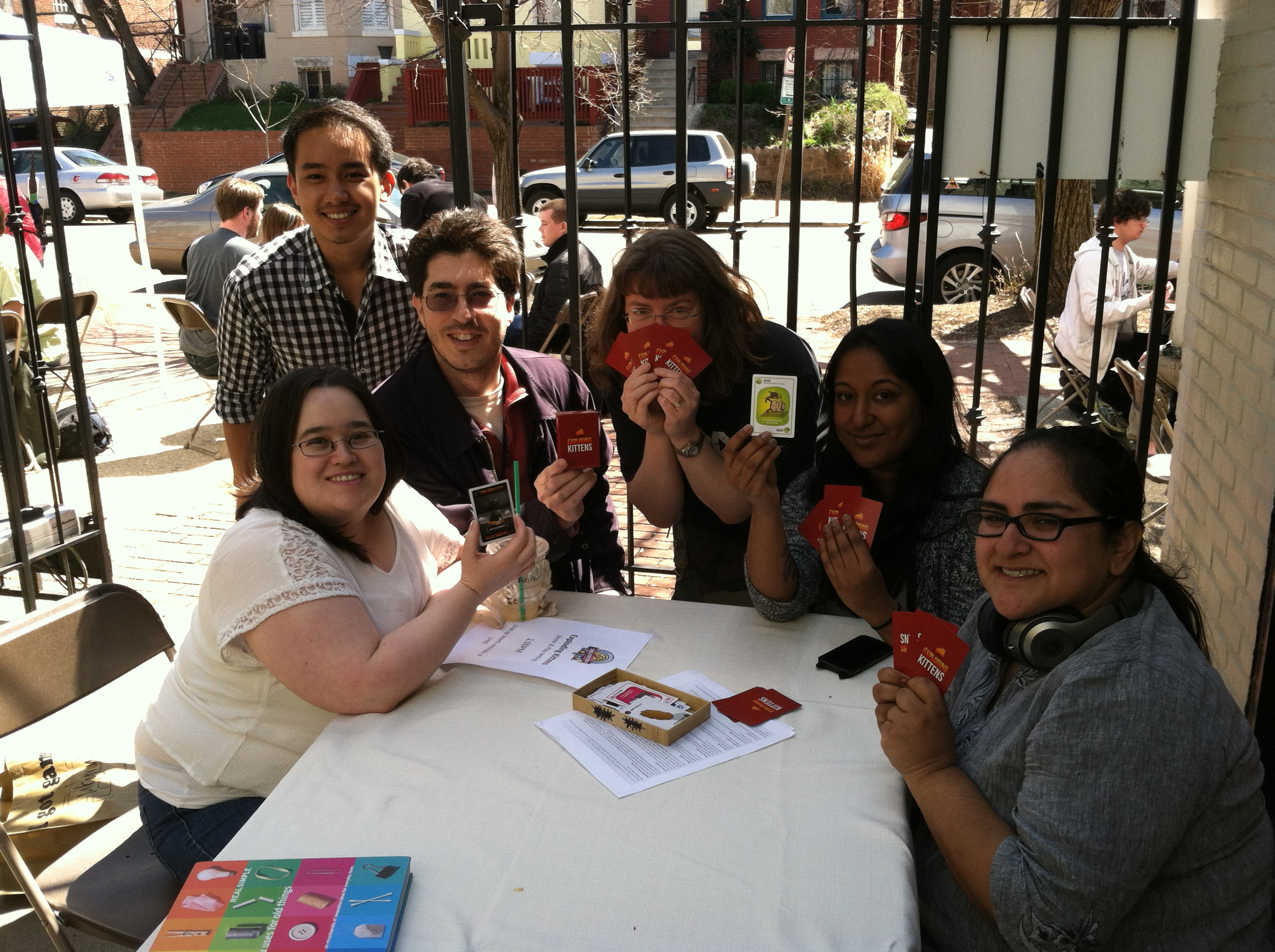 On 11 April 2015, the Elite Team Kitten play tested the new game called Exploding Kittens during the International Tabletop Day.